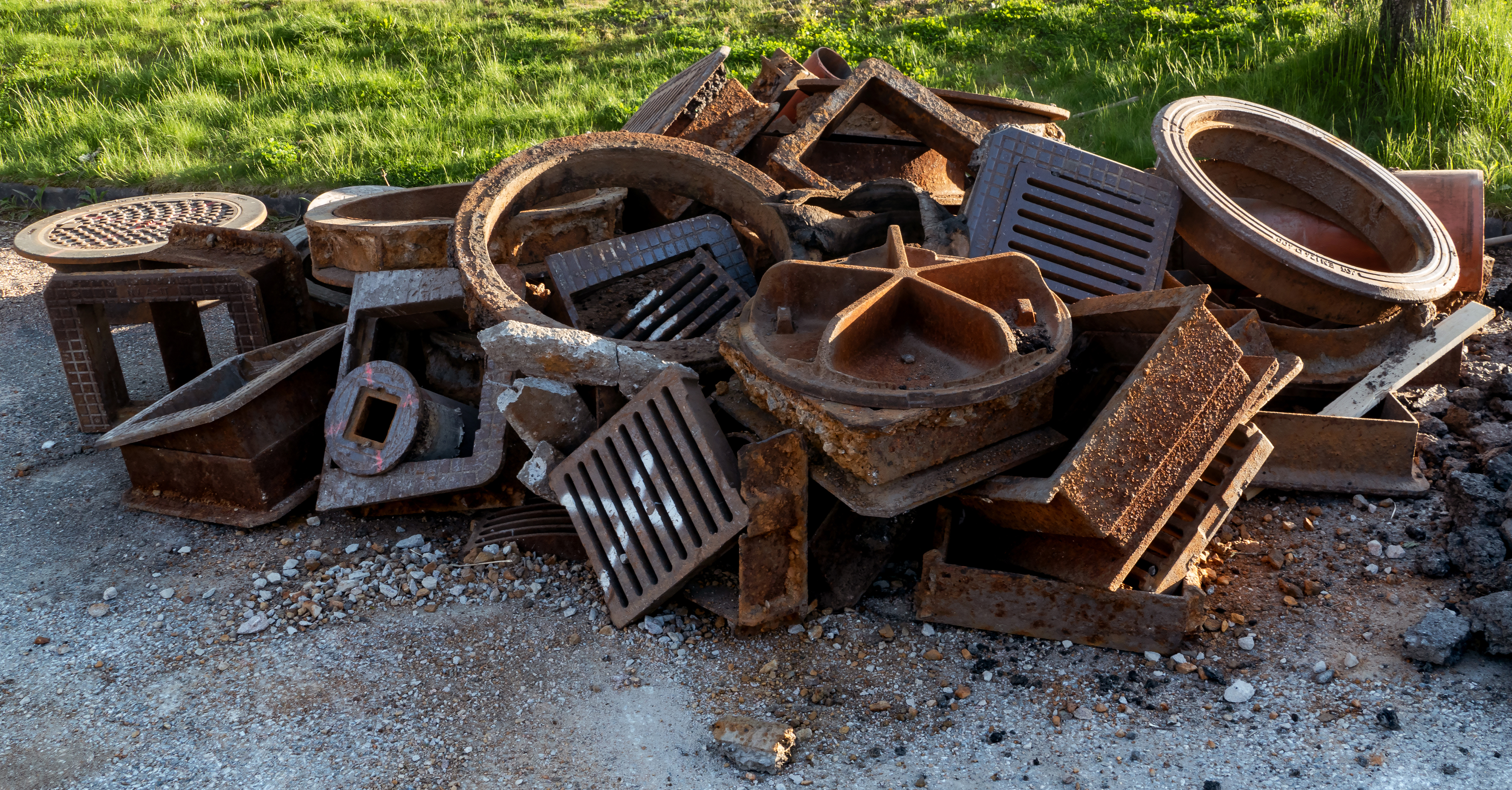 Scrapped manholes and covers during road works on the main road through Brastad, Sweden. The road and sidewalks are being repaved. The old layer of asphalt has been stripped/torn away and the old manholes and their covers have been removed. The road is not closed during work but the speed limit has been lowered to 30 km/h and sometimes traffic is being directed by road work guards.